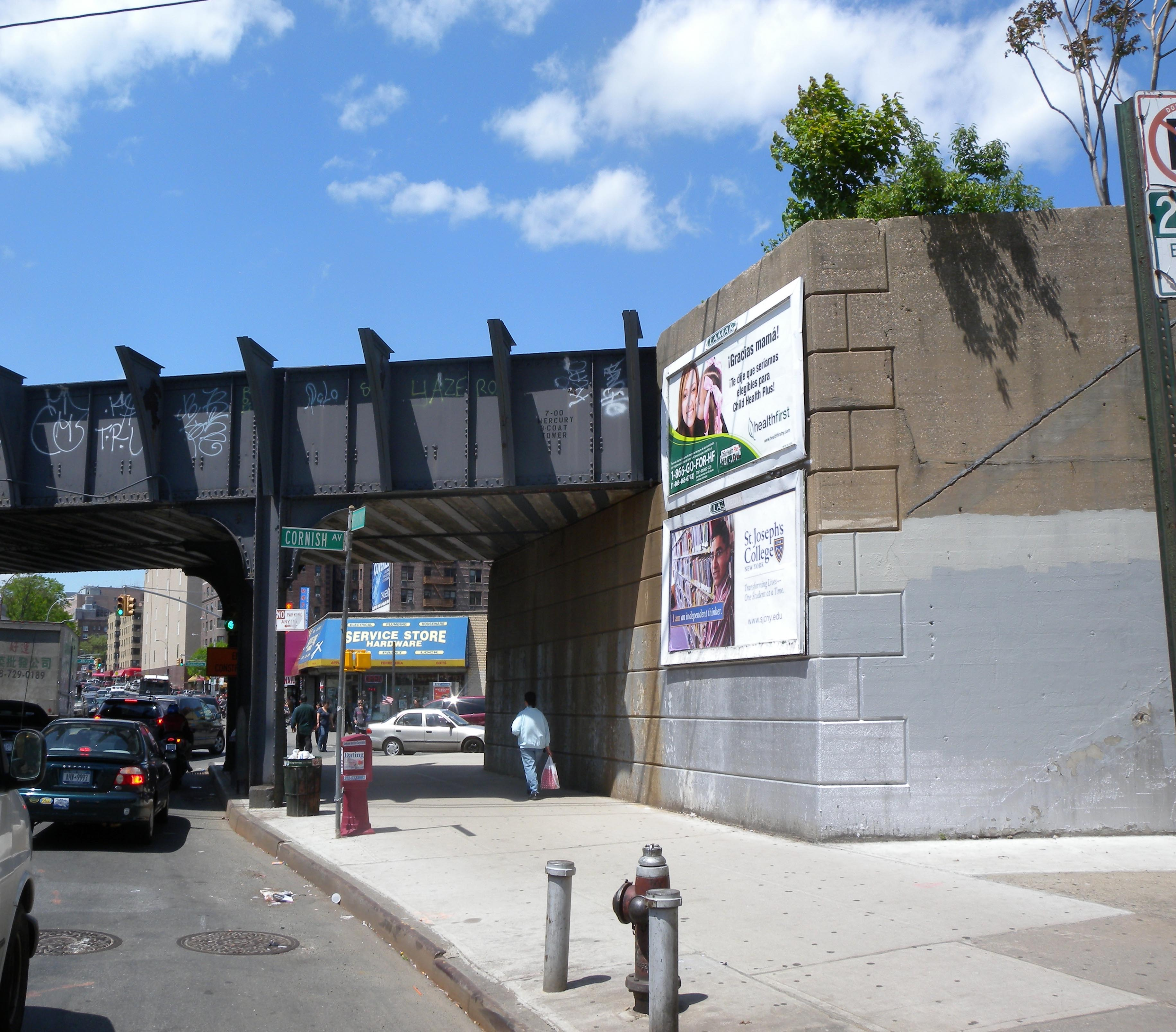 Looking northwest along Broadway at former Elmhurst station of LIRR on a sunny midday.